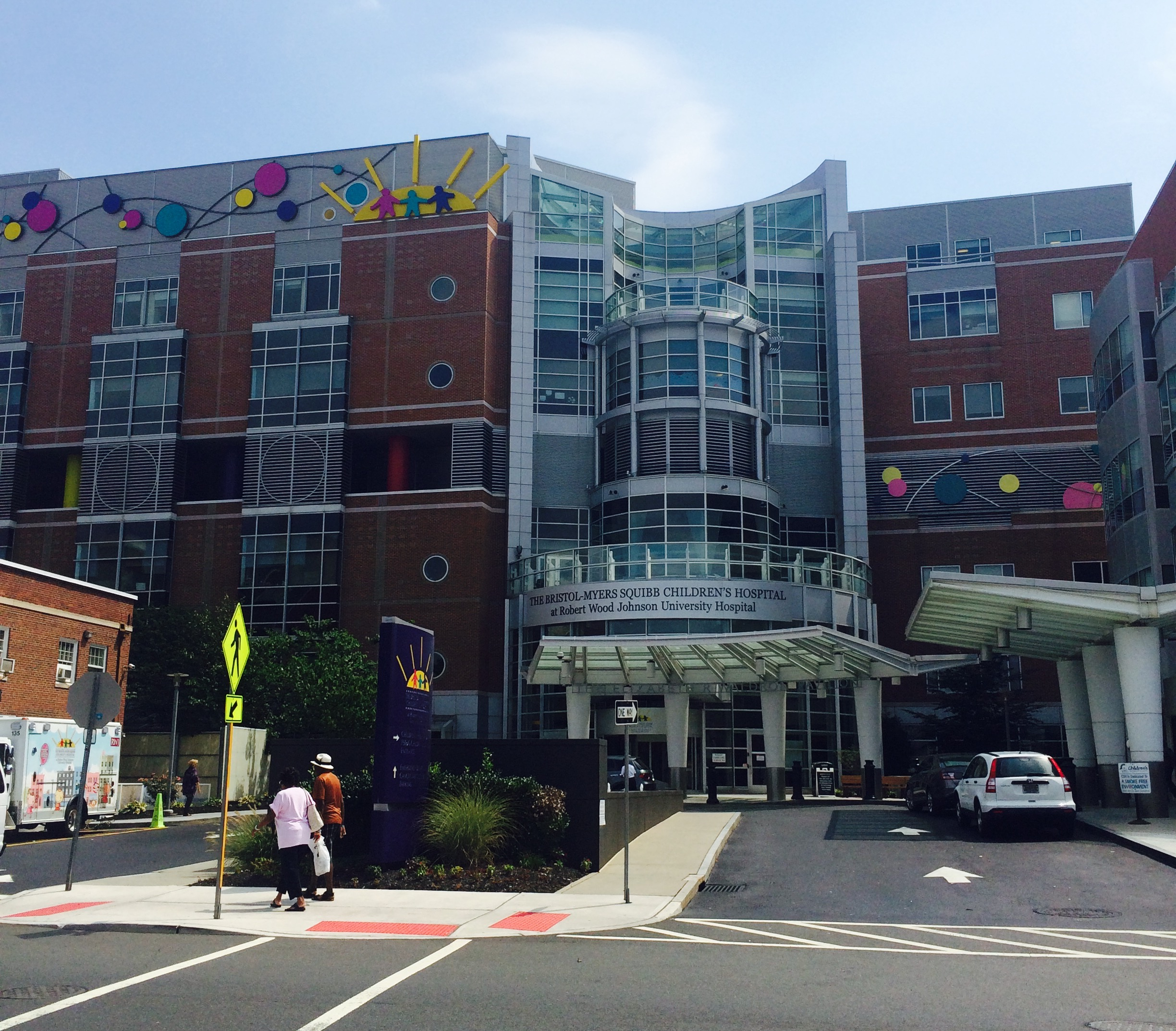 The Bristol-Myers Squibb Children's Hospital at Robert Wood Johnson University Hospital in New Brunswick, NJ, taken August 24, 2015.